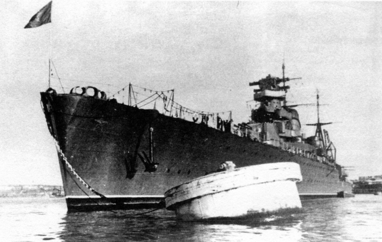 The Soviet cruiser Molotov, 1941.